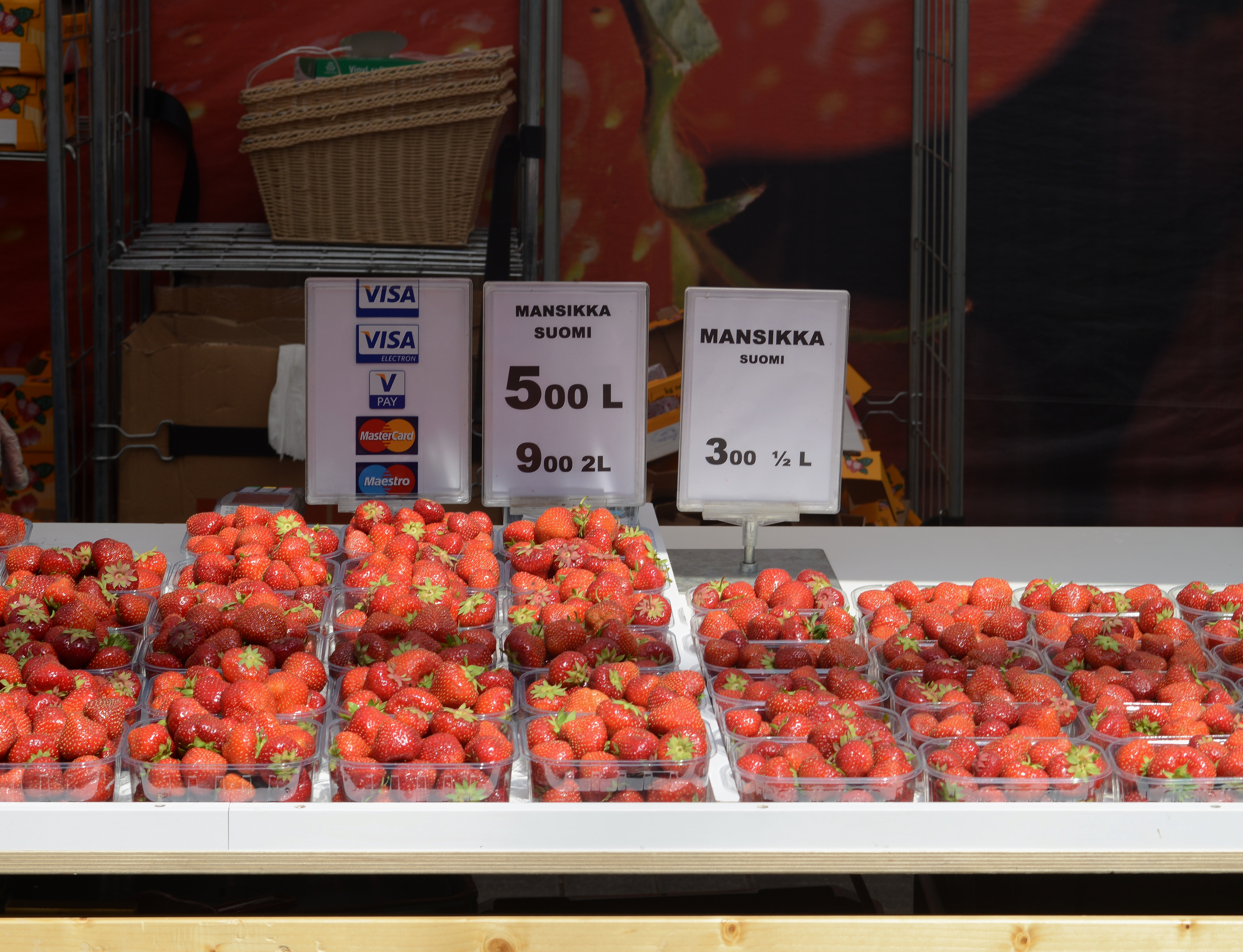 Selling strawberries in Helsinki, Finland